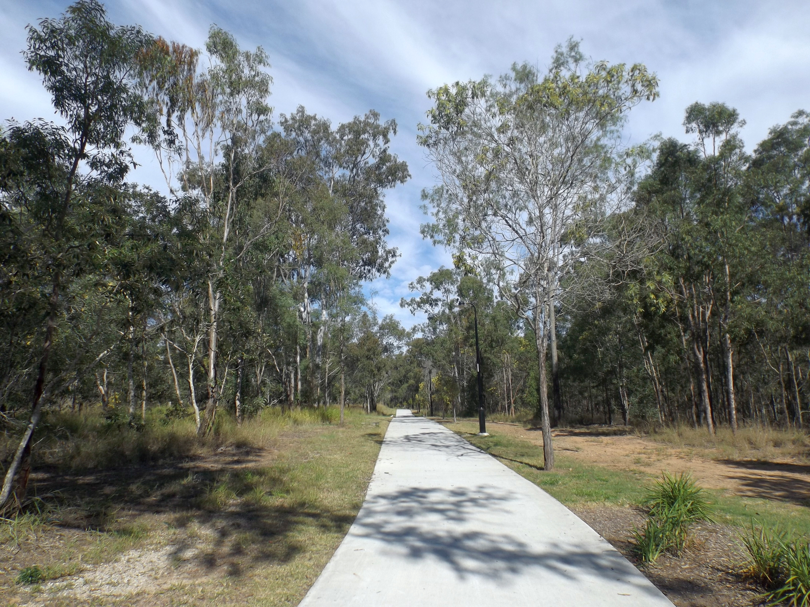 Photo of the Brassall Bikeway at Wulkuraka, Ipswich, Queensland, Australia.